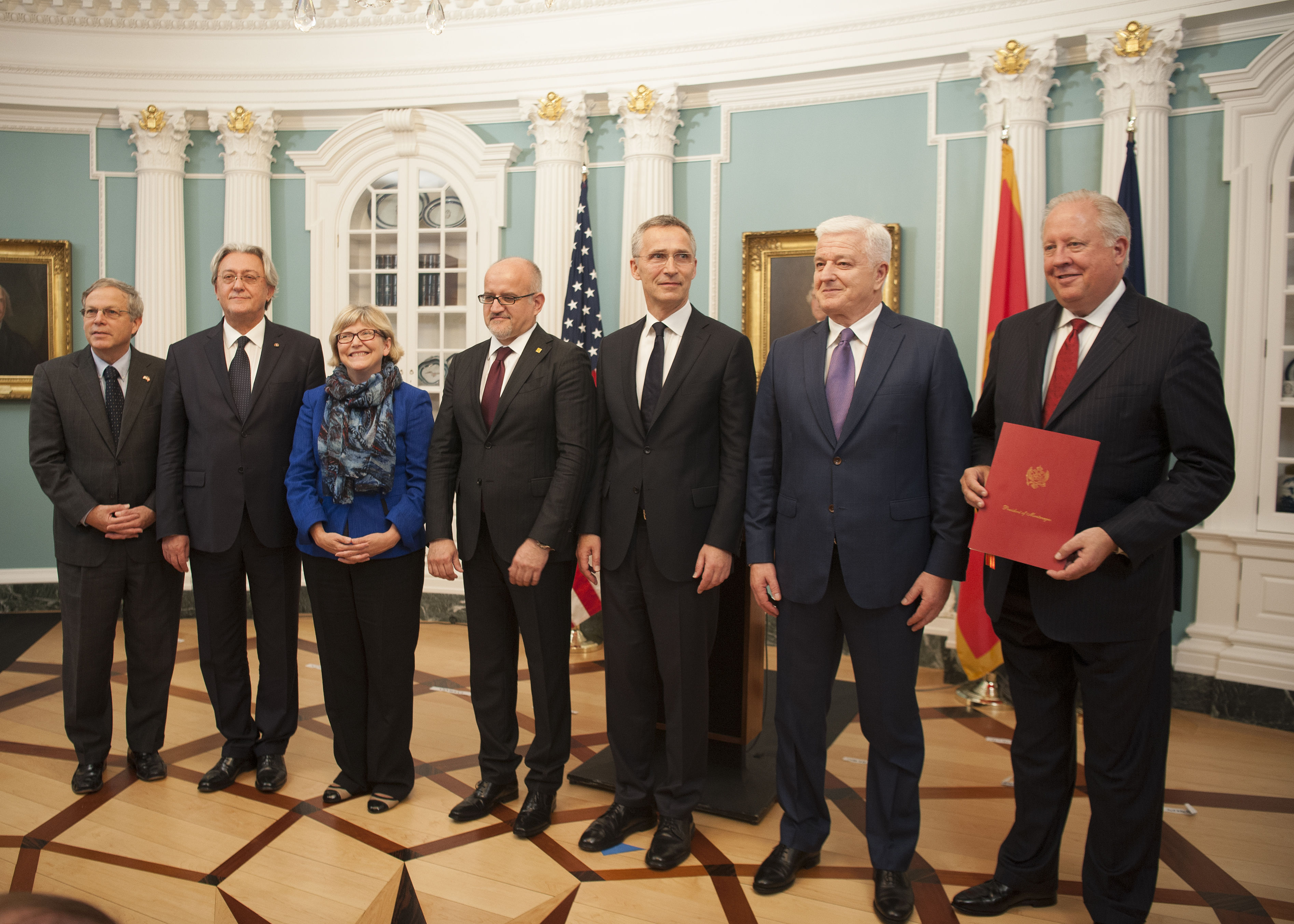 Under Secretary of State for Political Affairs Tom Shannon poses for a photo with Montenegro’s Prime Minister Dusko Markovic, Montenegro's Foreign Minister Dr. Srdjan Darmanović, and NATO Secretary-General Jens Stoltenberg at a ceremony to welcome Montenegro as the North Atlantic Treaty Organization's newest member, at the U.S. Department of State in Washington, D.C., on June 5, 2017. [State Department photo/ Public Domain]